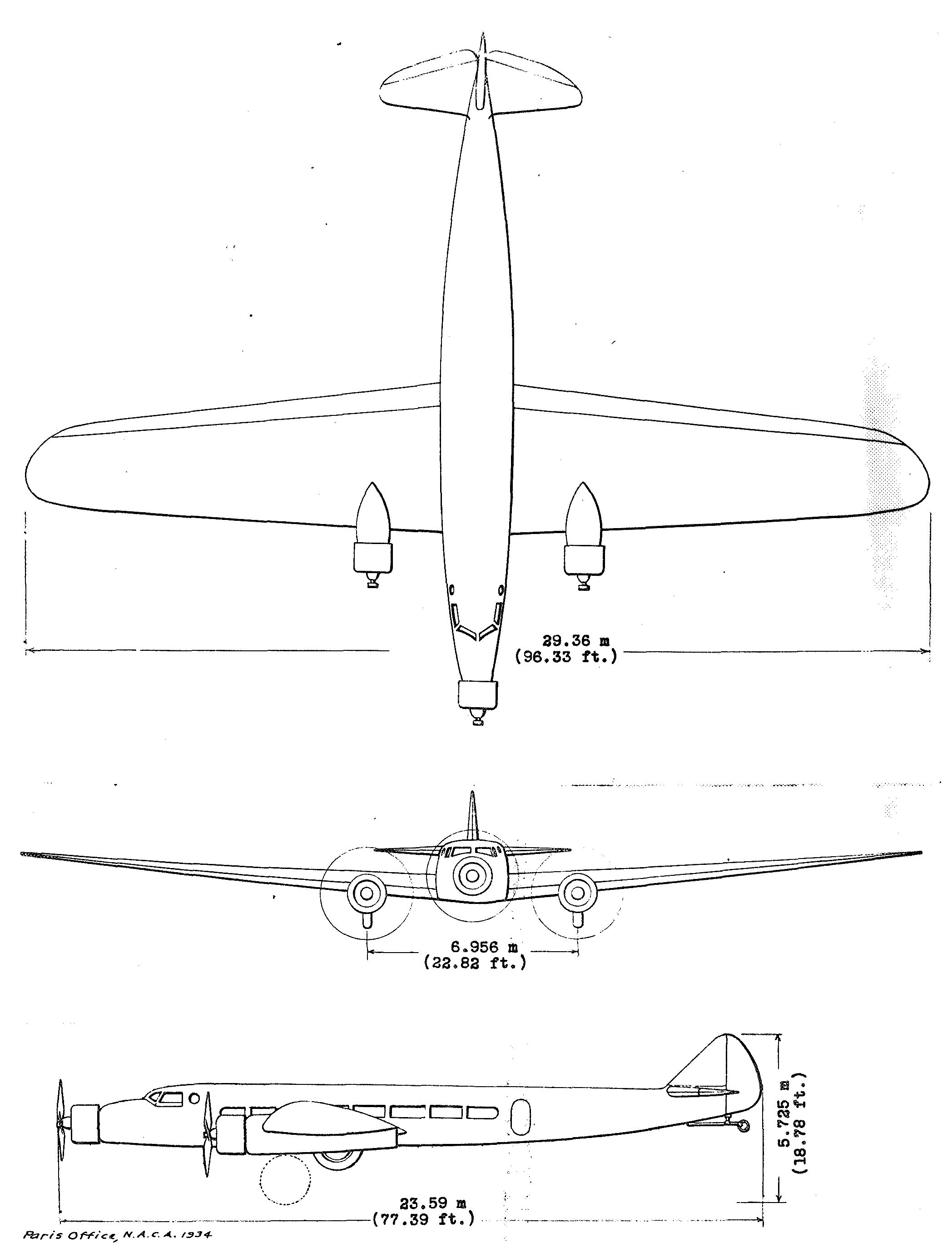 Dewoitine D.620 3-view drawing from NACA-SR-26